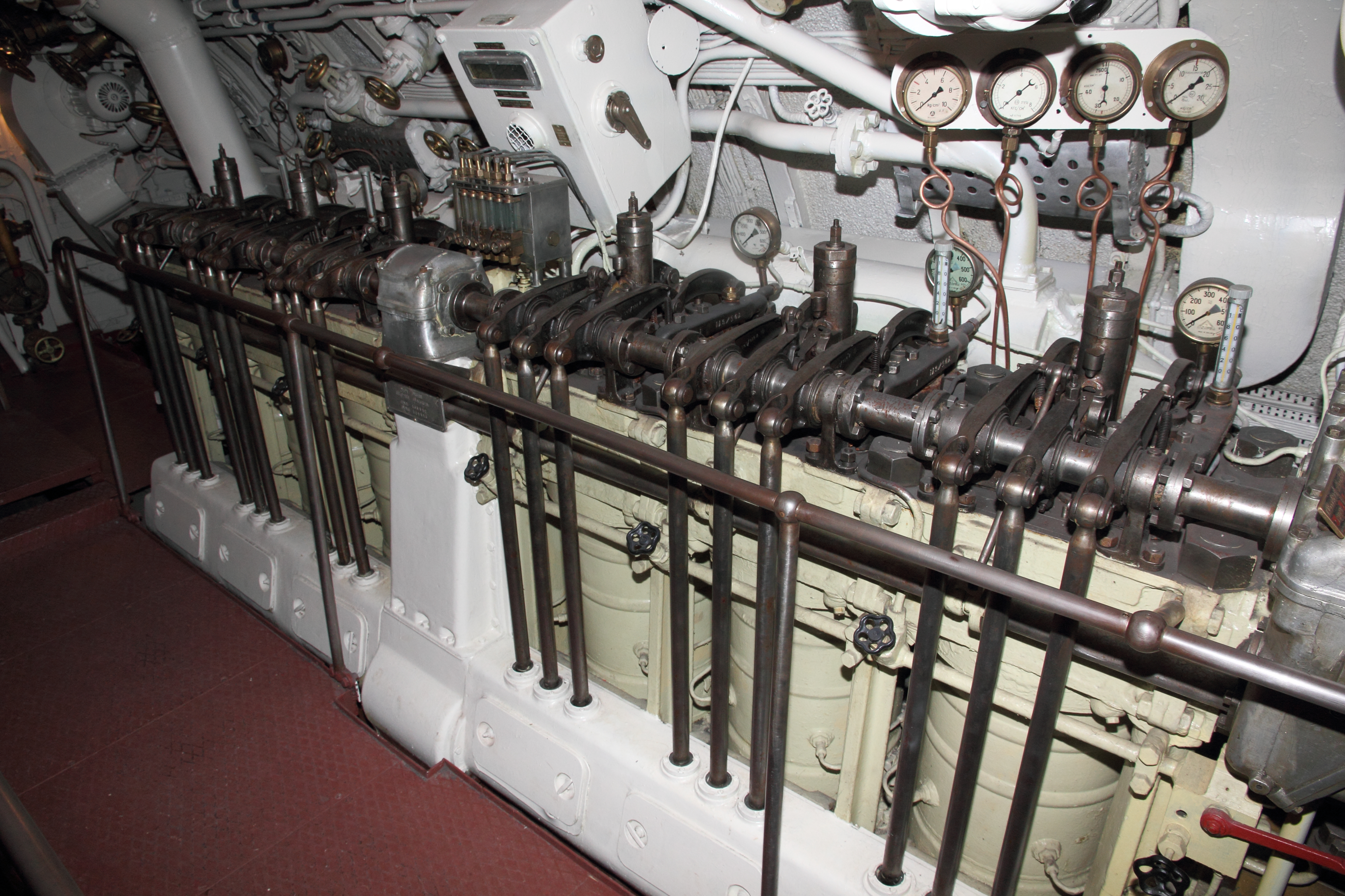 Diesel engine of the Estonian museum submarine Lembit in Lennusadam seaplane hangar at the Estonian maritime museum.